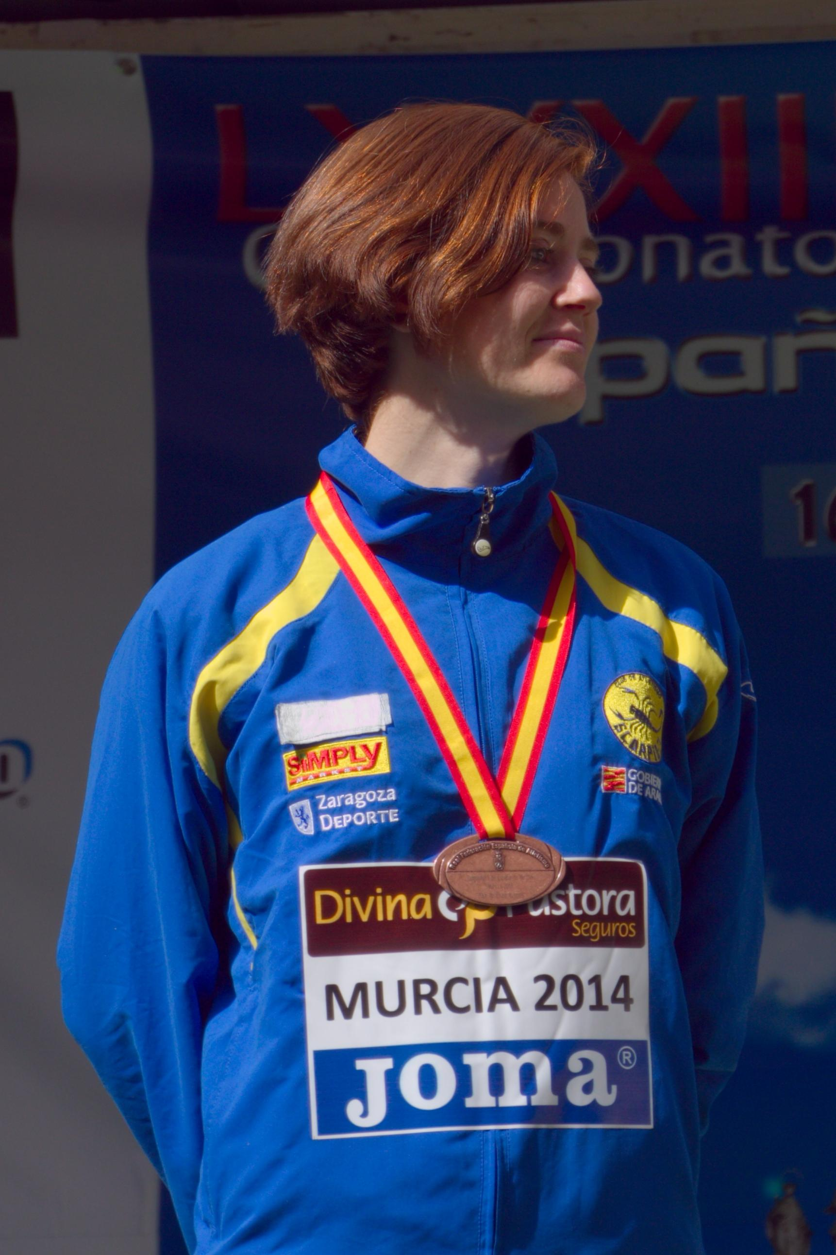 María José Poves Novella, spanish racewalker. He participated in the 2008 and 2012 Olympic Games. Photography taken in Murcia, on February 16, 2014.